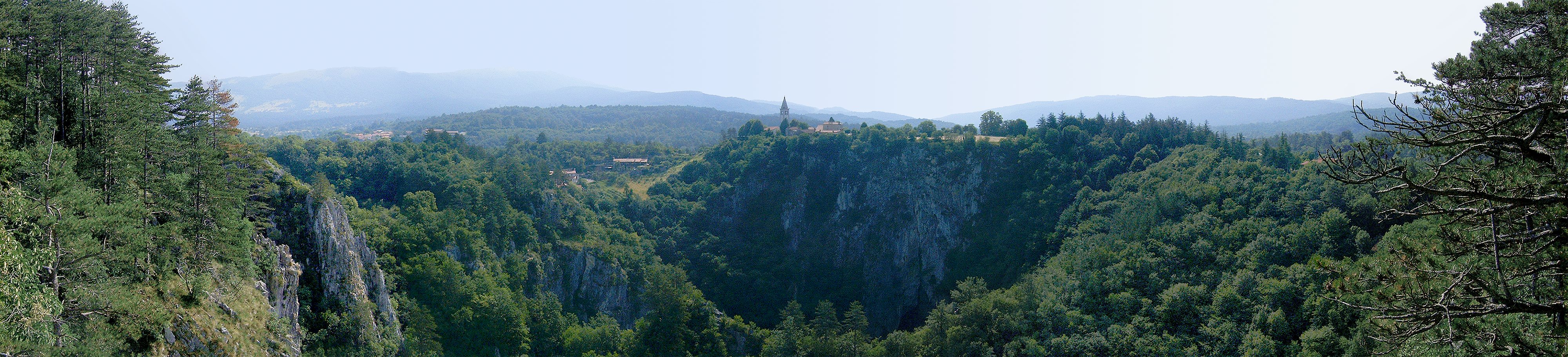 Panoramic view overlooking the entrance to the Škocjan Caves, Slovenia. Škocjan, Divača seen in the background. Taken with a HP Photosmart 635 Digital Camera, stitched with Photoshop CS2.